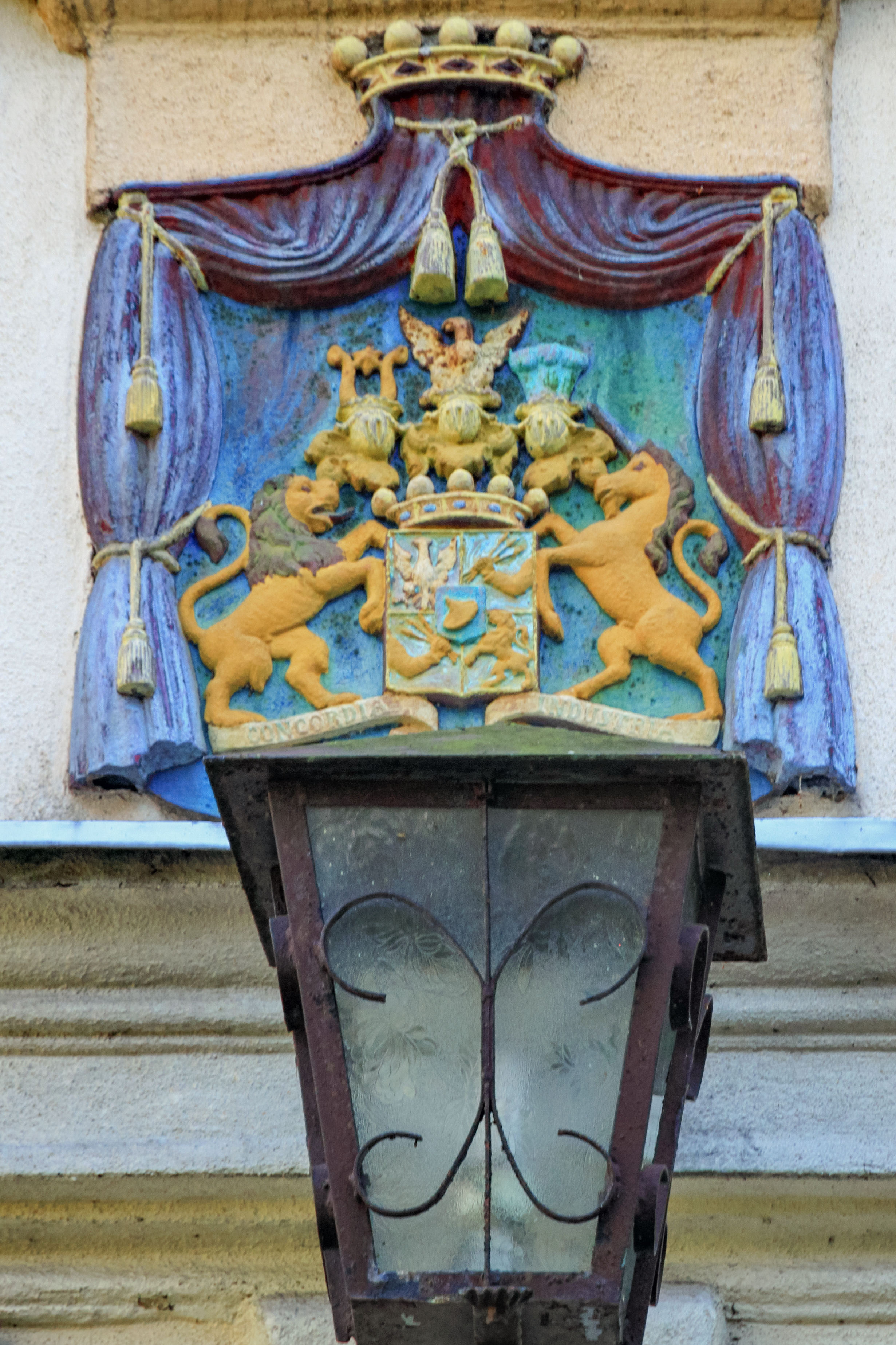 Coat of arms of the Rothschild family over the entrance to the palace. Palace (Bogumin Castle). Chałupki, Silesian Voivodeship, Poland.